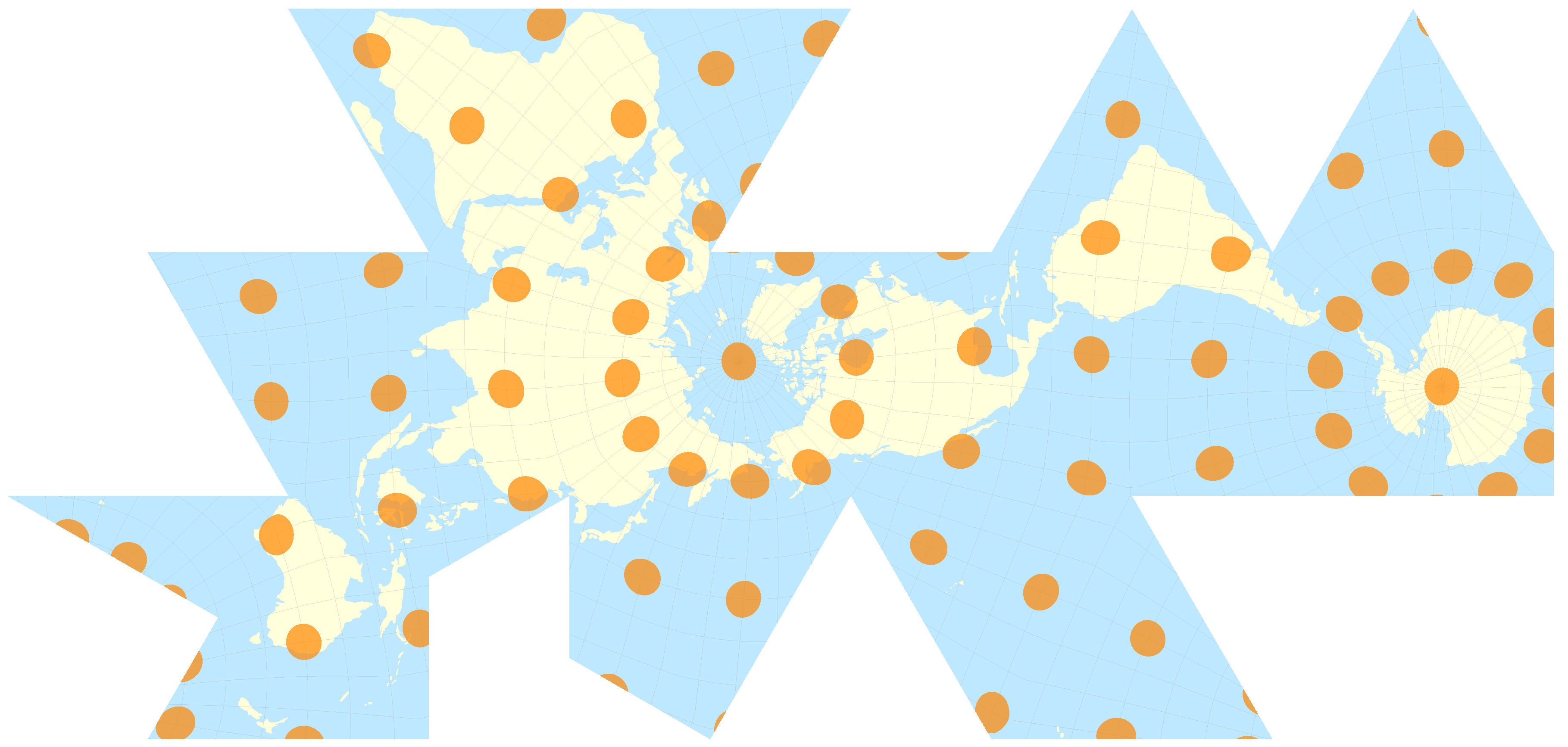 Map of the world in a Fuller projection with Tissot's Indicatrix of deformation. Each orange circle/ellipse has a radius of 500 km.